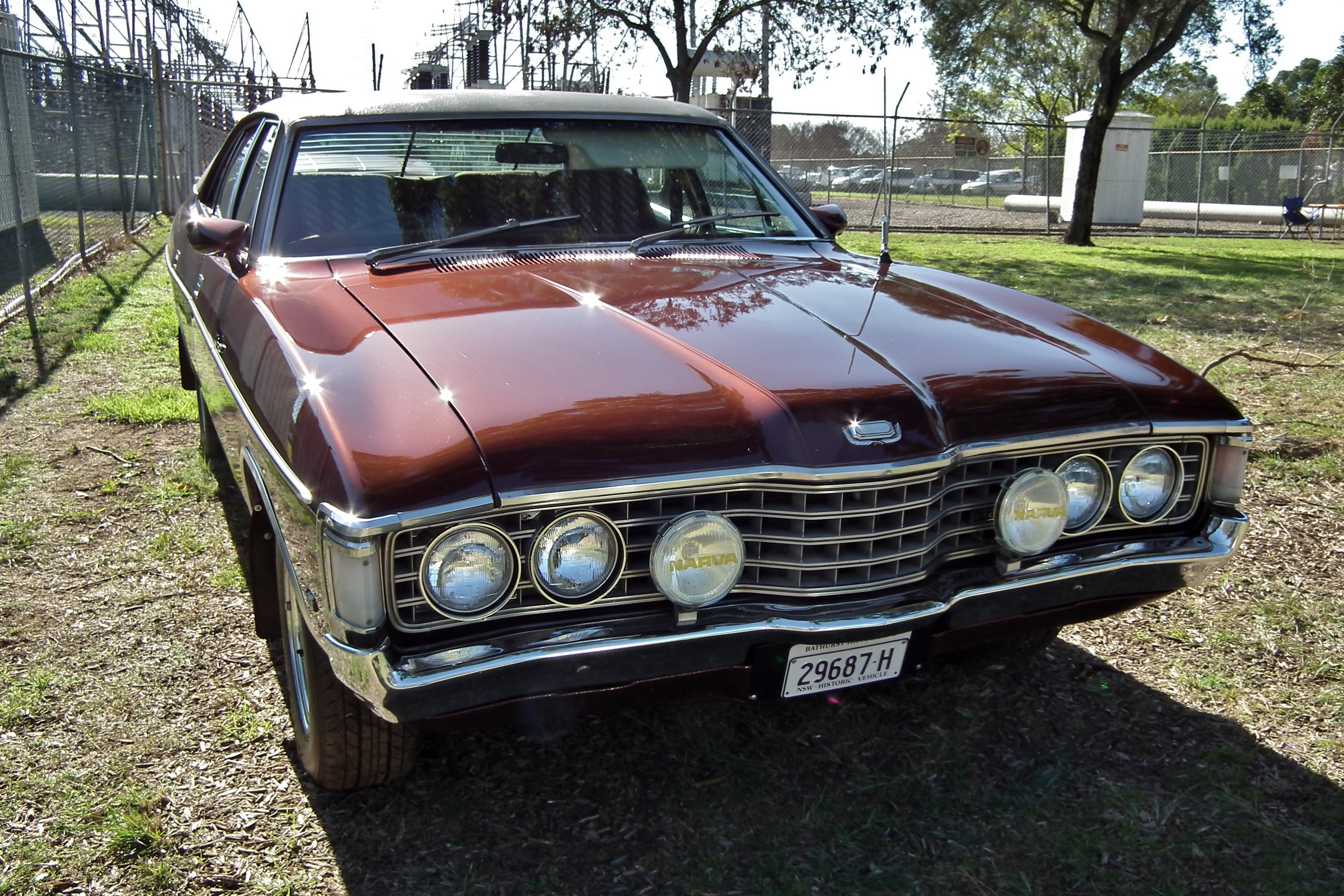 1974 Ford ZG Fairlane 500 sedan. Taken in the carpark at the 2011 Sydney Antique & Classic Truck Show, held at the Museum of Fire in Penrith, NSW.